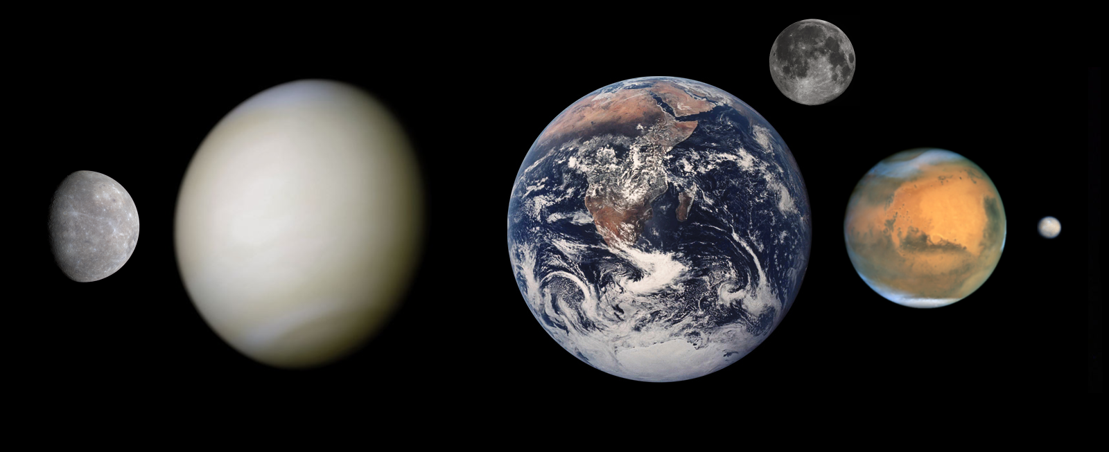 Size comparison of the four terrestrial planets (Mercury, Venus, Earth, Mars), Earth's Moon and dwarf planet Ceres in true color.